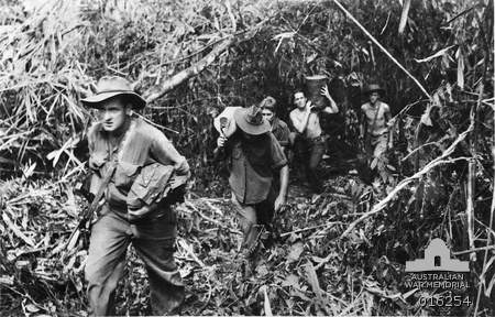 Australian infantrymen from the 2/24th Battalion carry stores up to the 2/23rd Battalion as they advance north from Sattelberg during the Battle of Wareo.